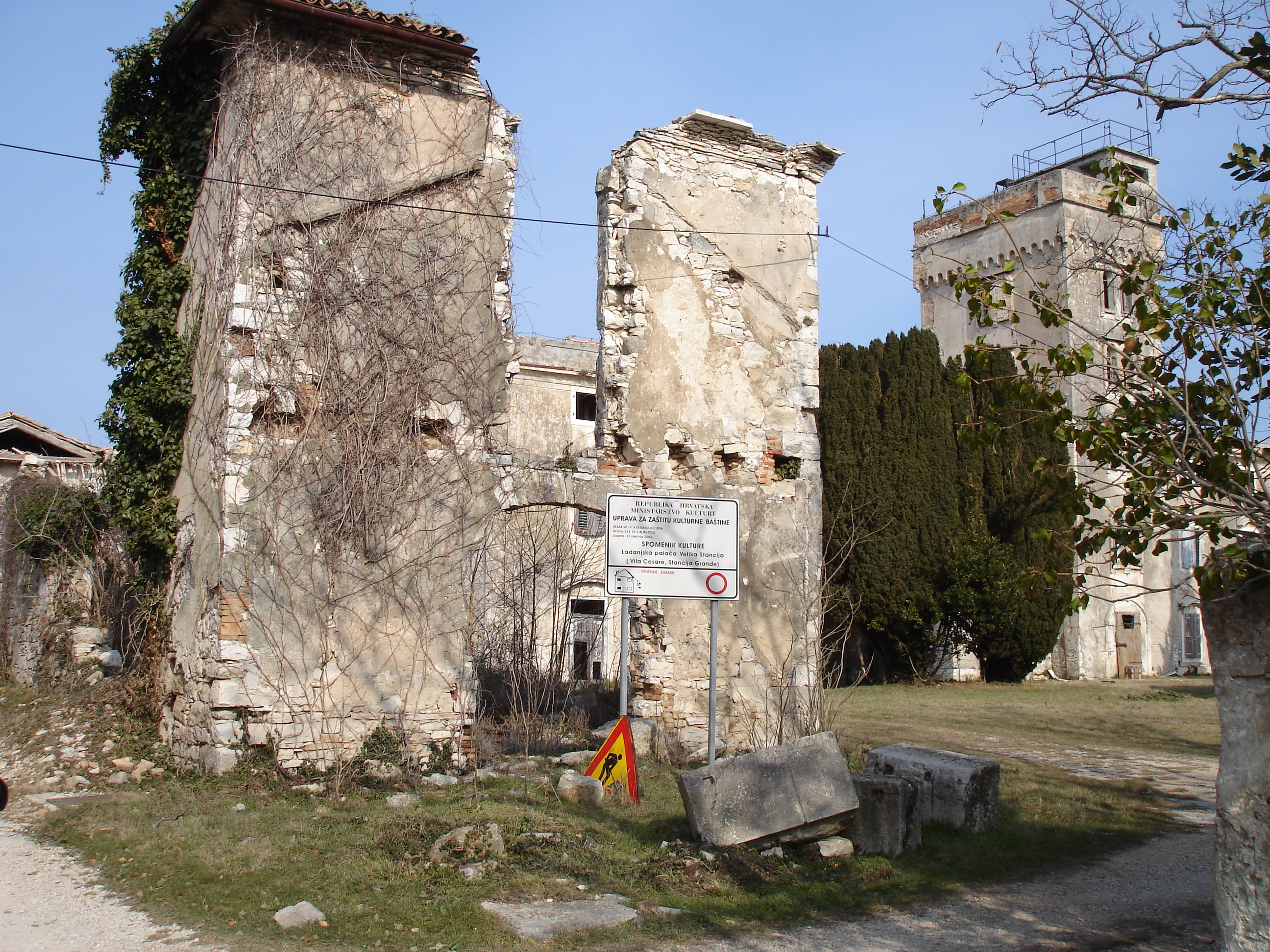 "Preservation" of cultural monuments: just one large table set. Stancija Grande, Savudrija, Istria, Croatia, 18.2.2012.